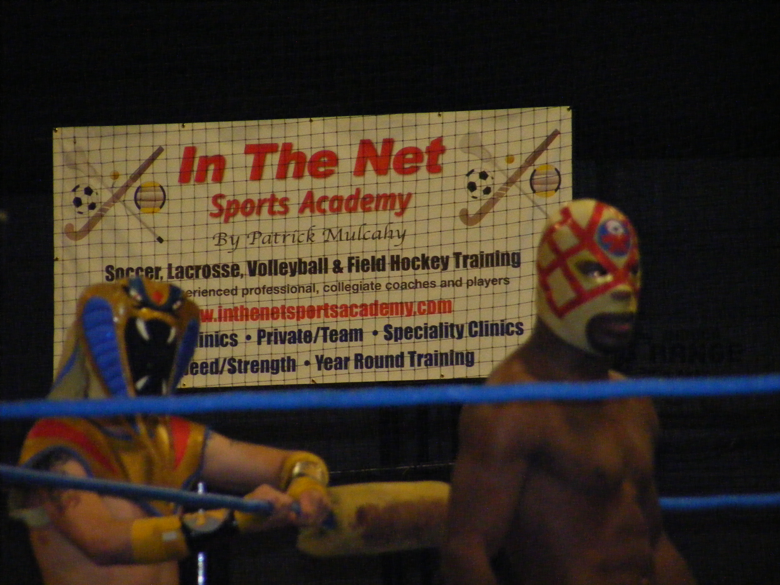 Professional wrestling tag team The Osirian Portal at a Combat Zone Wrestling event